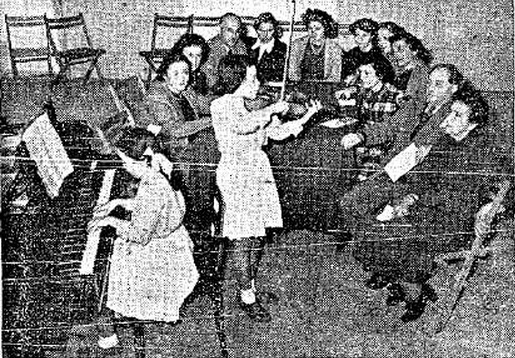 Director Gita Dunie-Weizman (to the right) and Deputy Director Friedman-Lvov (next to her) examining female students at the Haifa Music Institute